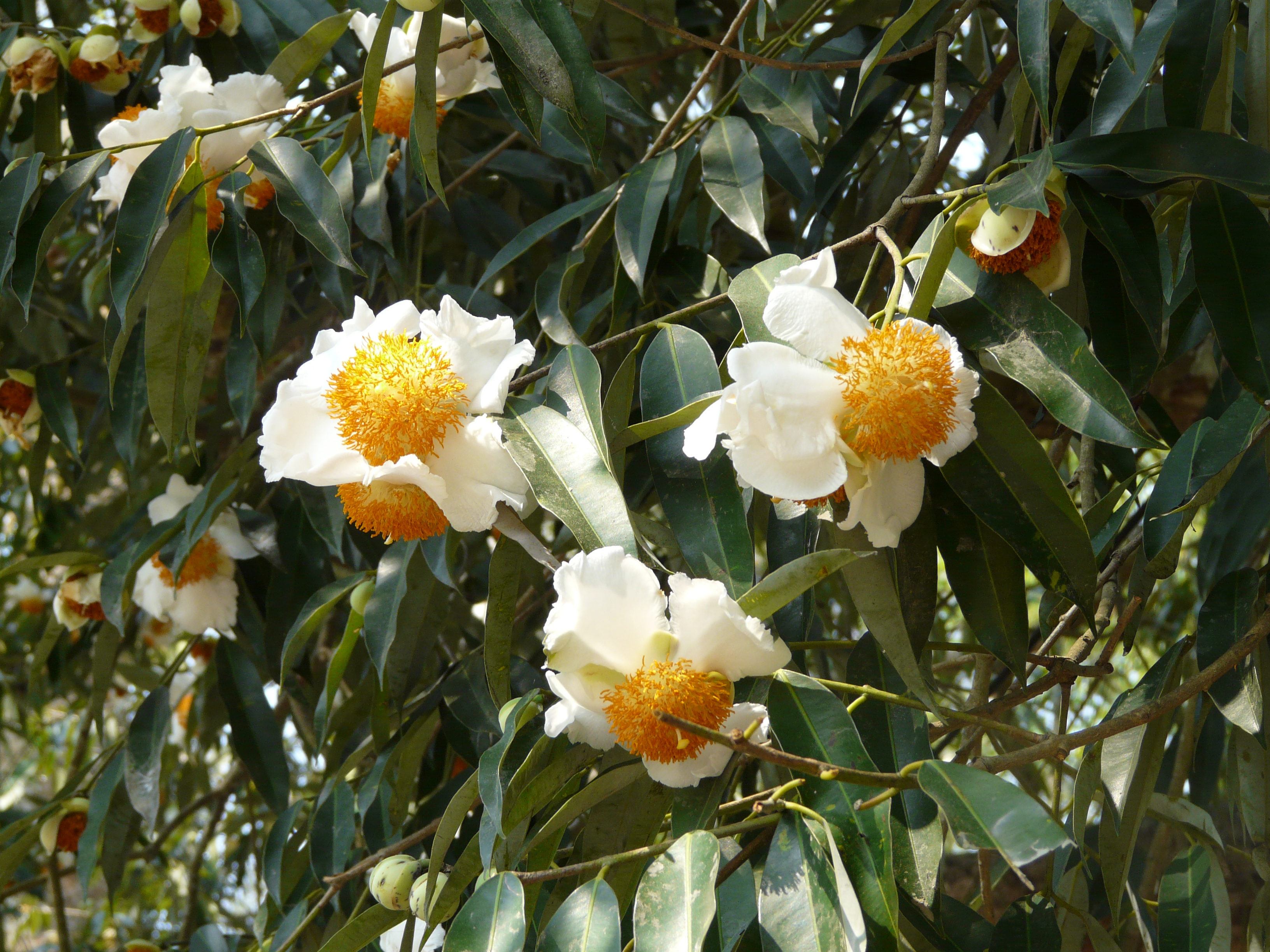 Flowers of Mesua ferrea, Kaziranga Tiger Reserve, Assam, India